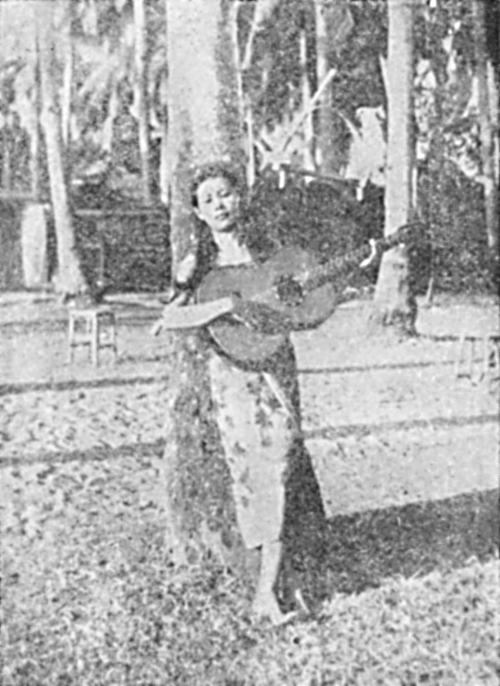 A scene from the 1940 Union Films production Harta Berdarah